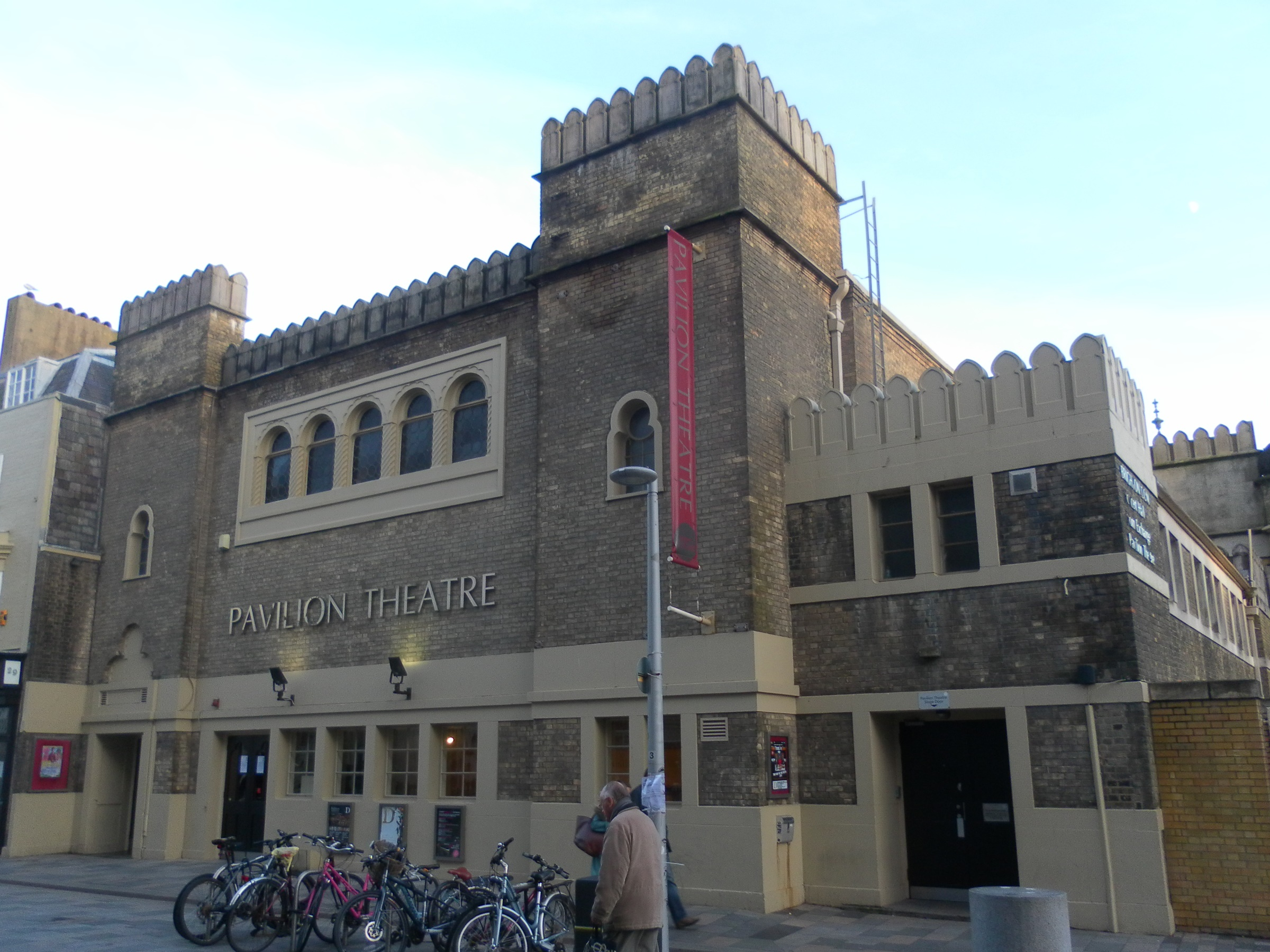 Pavilion Theatre, New Road, North Laine, Brighton, City of Brighton and Hove, England.